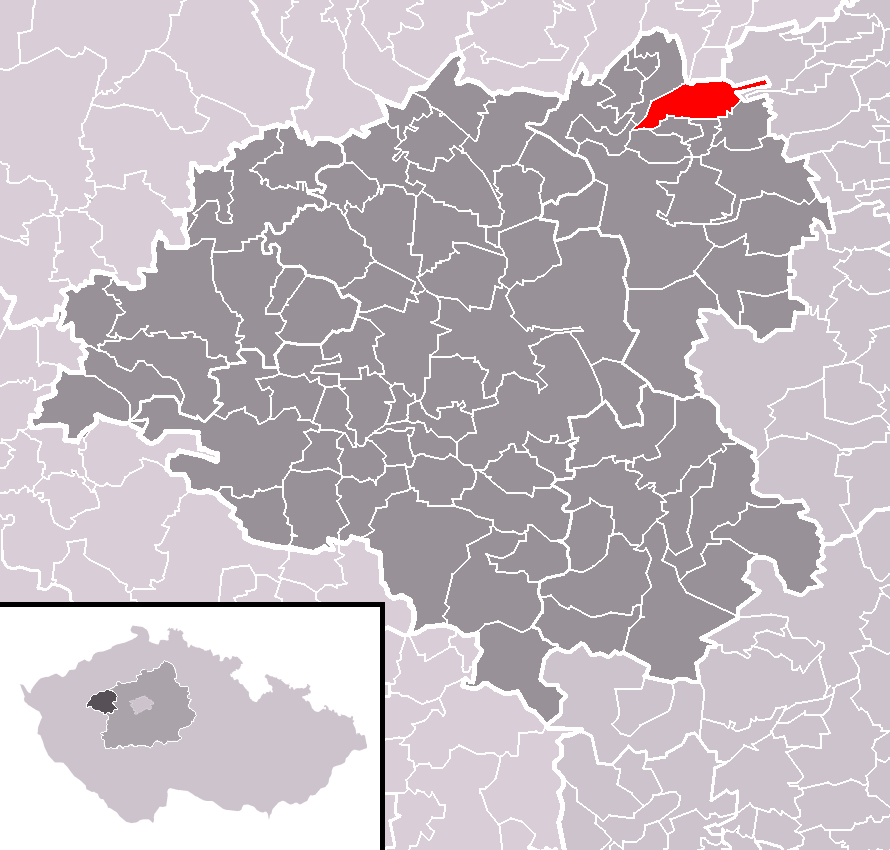 Location of Milý municipality within Rakovník District and (identical) administrative area of Rakovník as a Municipality with Extended Competence.